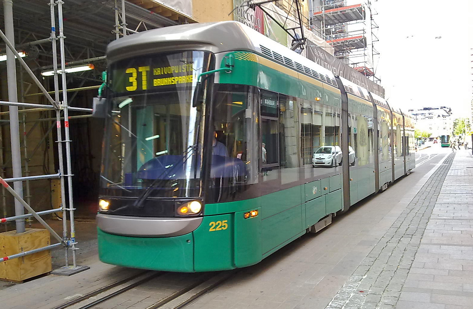 Variotram on Mikonkatu, Helsinki